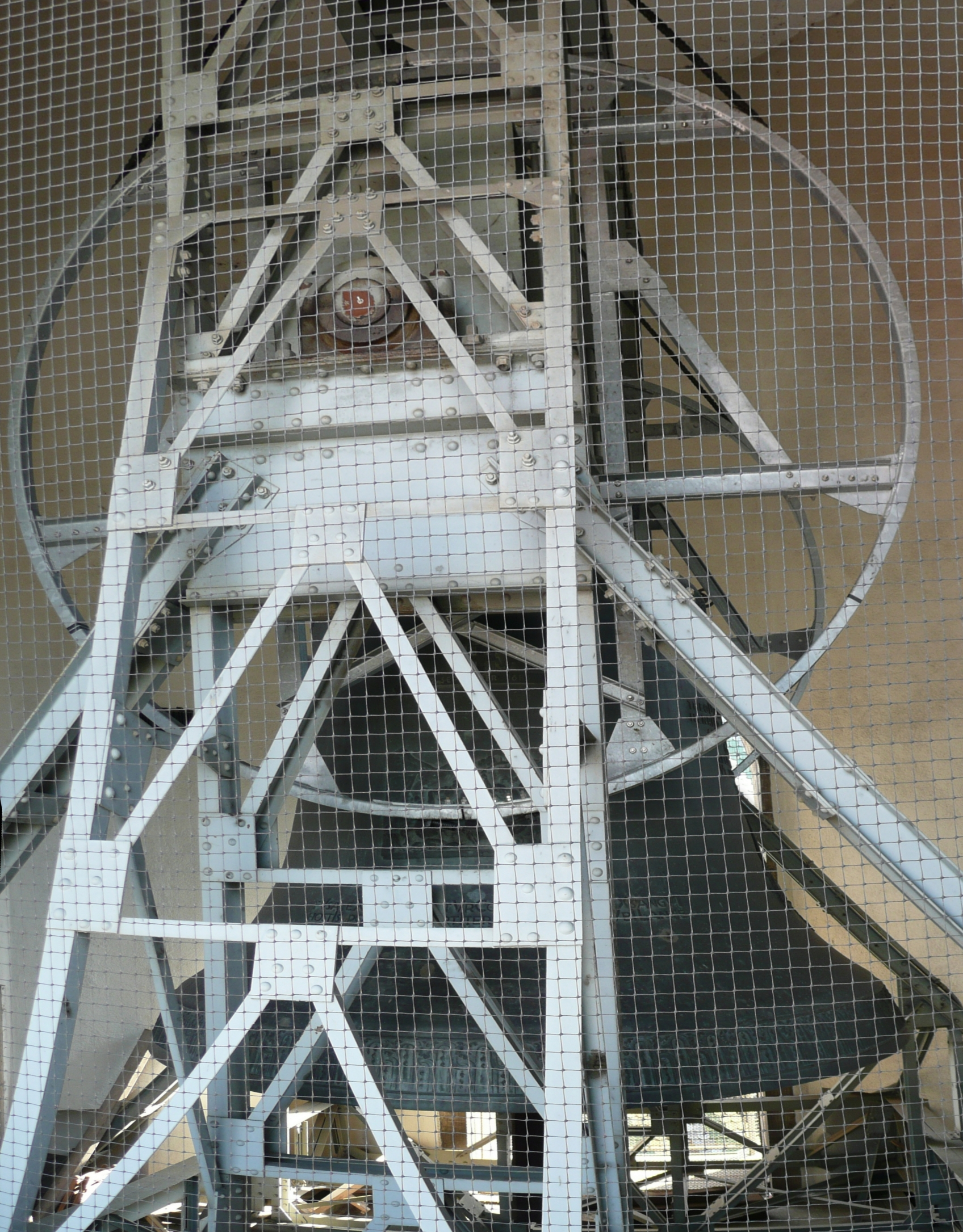 The Pummerin bell from the side with its works, largest one in Austria, at St. Stephen's Cathedral in Vienna. It was cast by the canon-balls of the invading Turks in the 17th century. The bell weighs over 20 tons and rings only for New Year's and other special occasions. This side is from the north.